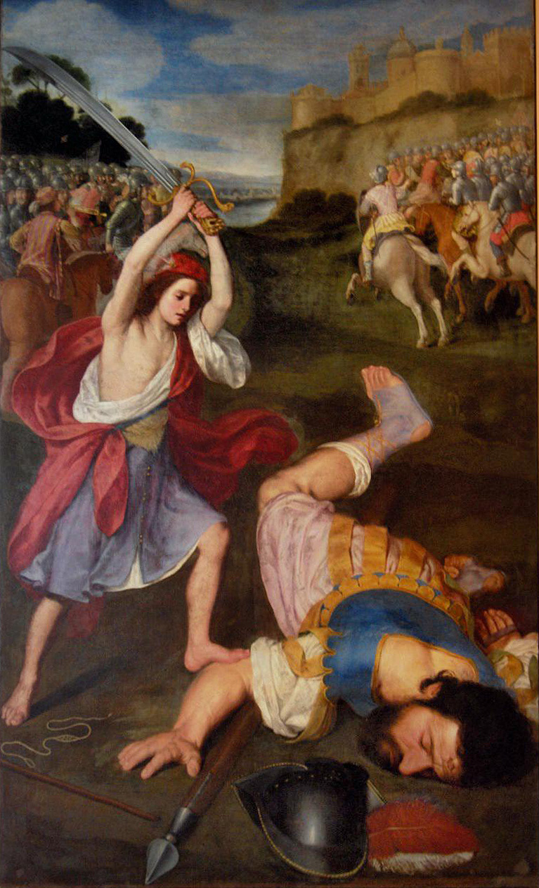 David and Goliath